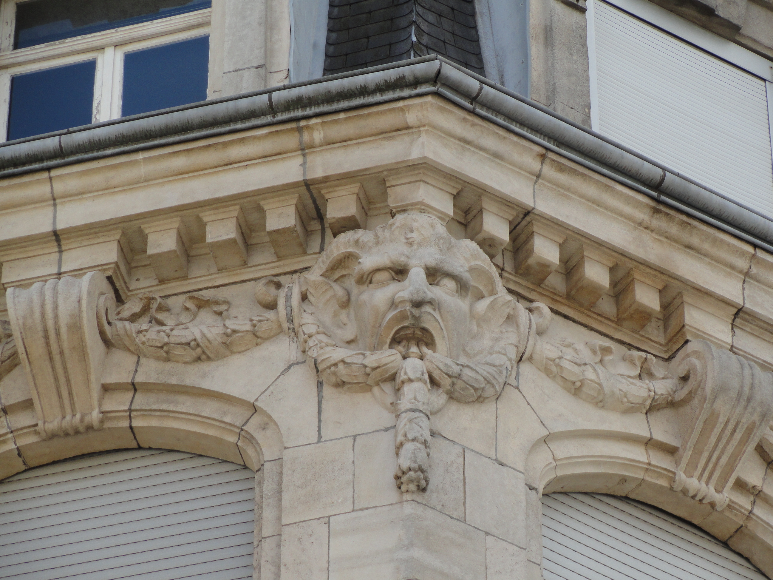 135 rue de l'Alzette -Esch-sur-Alzette - Grand Duché du Luxembourg